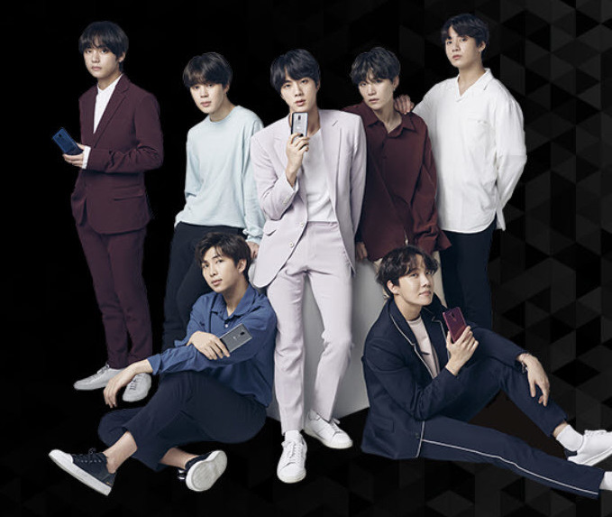 A mobile advertisement of BTS for the LG G7 ThinQ cellphone